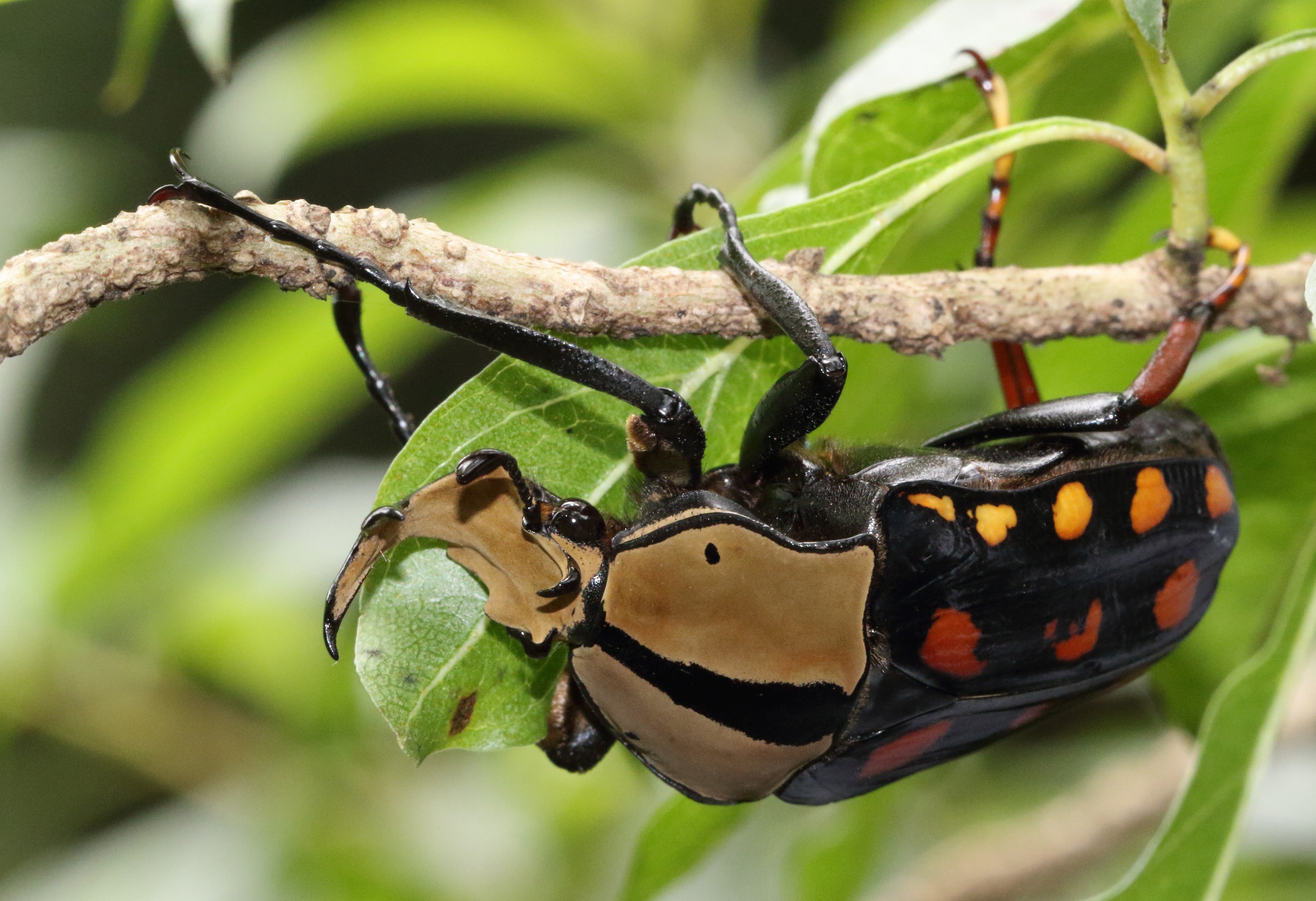 Male Mecynorhina passerinii, the orange-spotted fruit chafer; Pietermaritzburg, KwaZulu-Natal, South Africa.